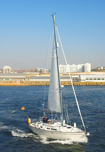 A Common Sight in Brighton Marina. This picture was taken from the Western Arm of Brighton Marina. The yacht is within the protected waters of the marina. The lower level buildings in the background are a part of the Marina complex. Walk along here on a sunny day for wonderful views.